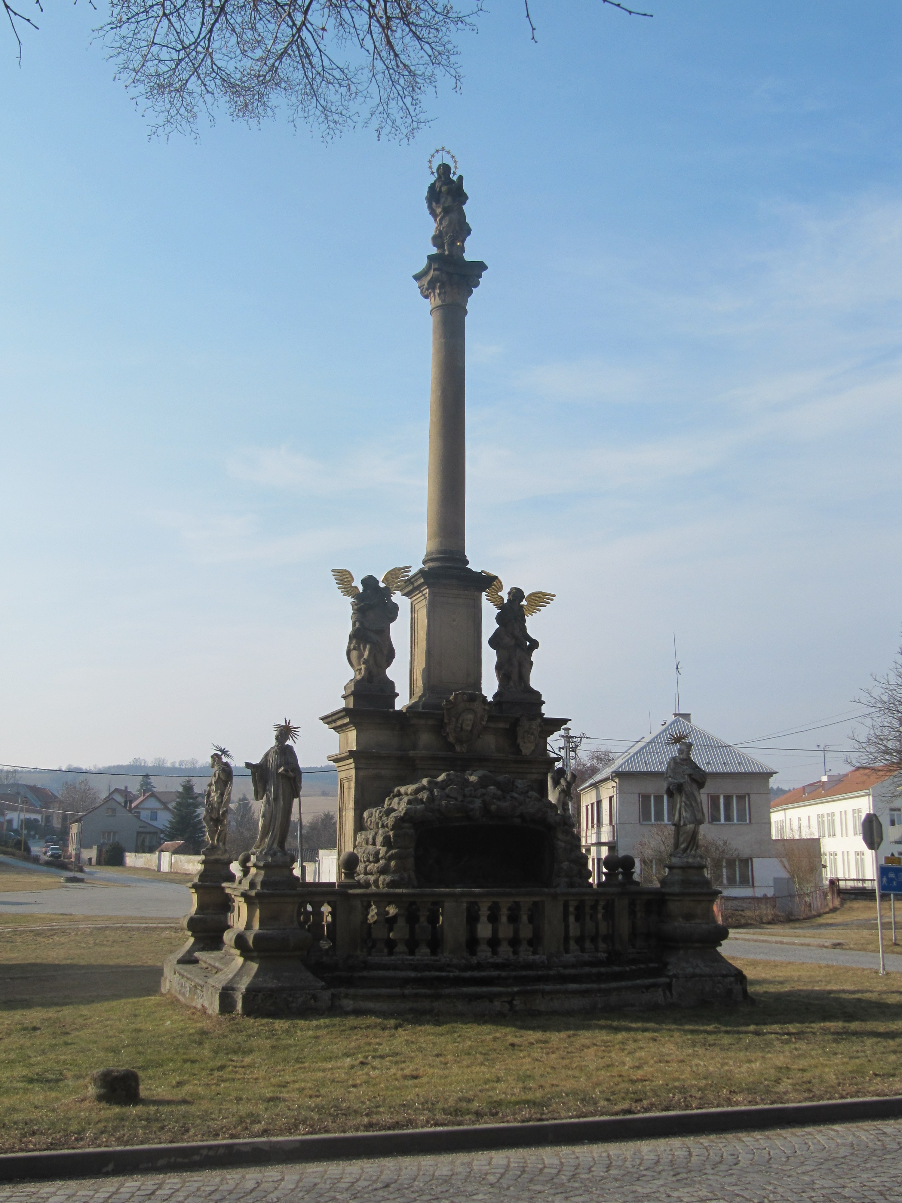 Velehrad in Uherské Hradiště District, Czech Republic. Marian column.